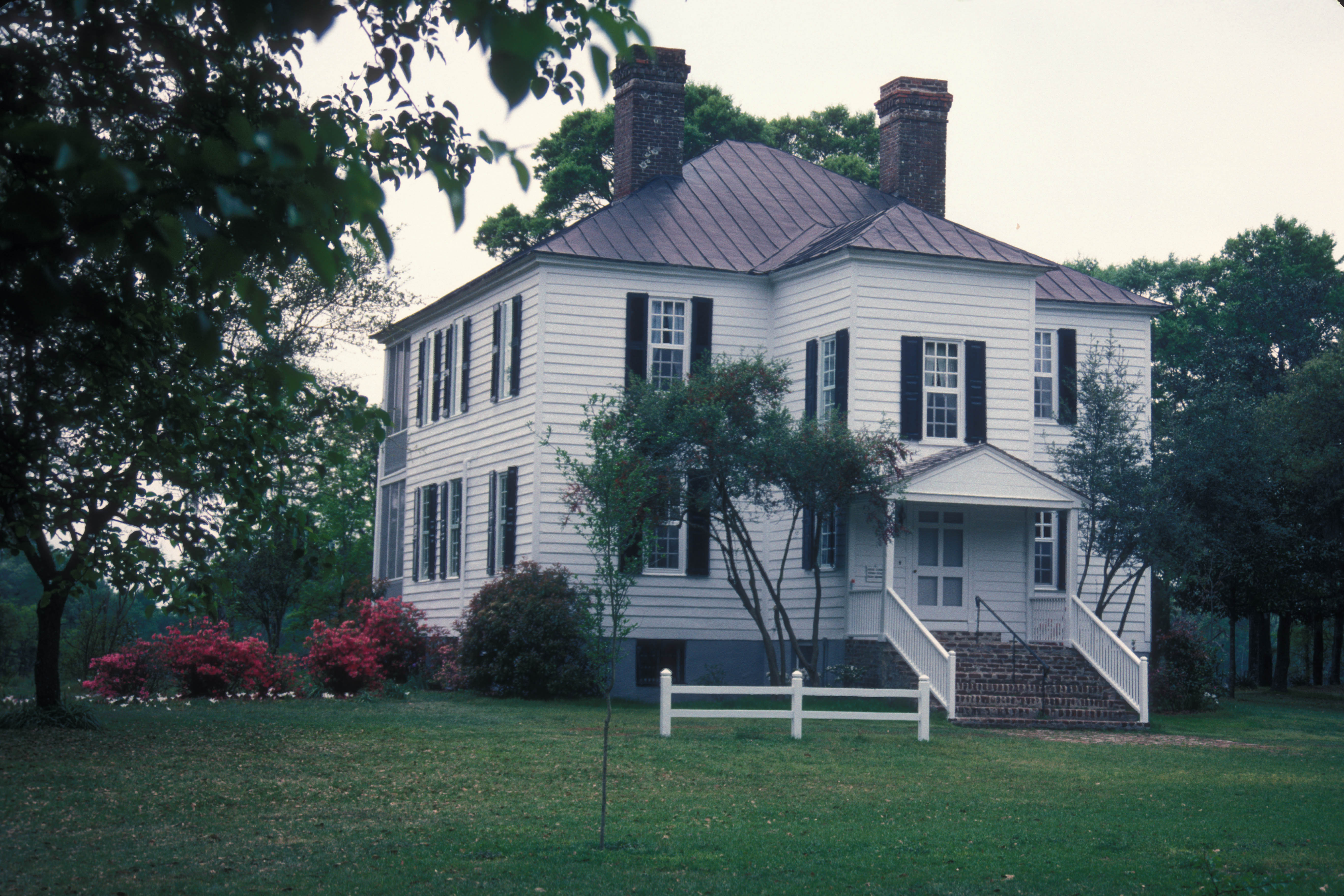 Hopsewee Plantation — on the Santee River north of Georgetown, in Georgetown County, South Carolina. Description Built around 40 years before the REVOLUTIONARY WAR, as a LOW COUNTRY RICE PLANTATION house by the LYNCH family. It was the Birthplace of THOMAS LYNCH, a DECLARATION SIGNER from SOUTH CAROLINA. Constructed on a BRICK FOUNDATION covered by SCORED TABBY, and framed with BLACK CYPRESS.